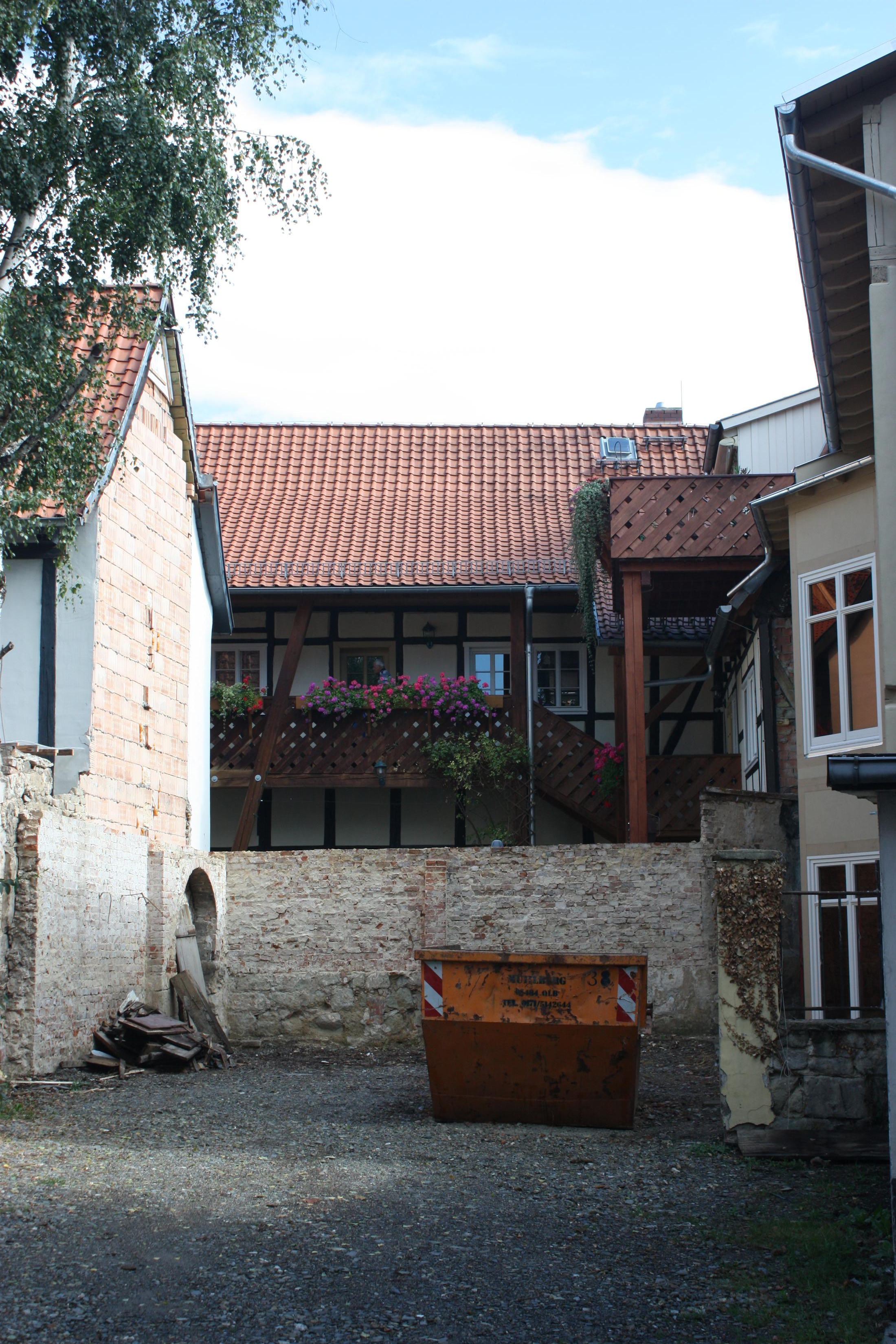 This is a photograph of an architectural monument.It is on the list of cultural monuments of Quedlinburg Hohe Straße 36-37